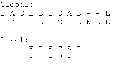 Global / Local alignment